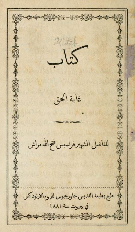 Work by Syrian writer Francis Marrash.